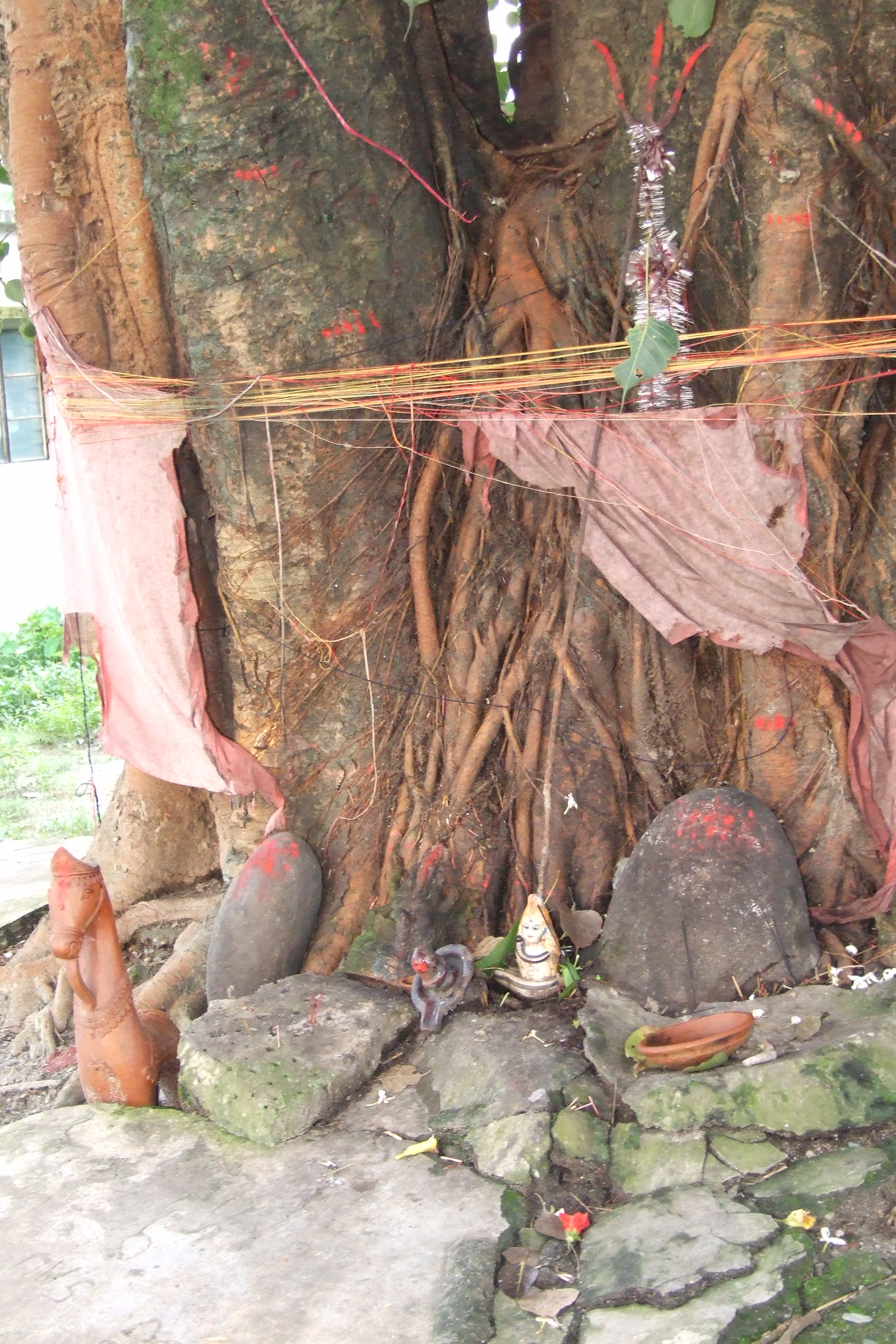 A peepal tree in Siliguri, West Bengal, India.